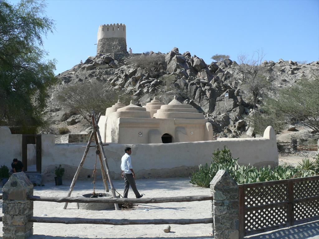 This is a photo of the Al Bidyah Mosque (in Fujairah, United Arab Emirates) on 26 or 27 October 2007.